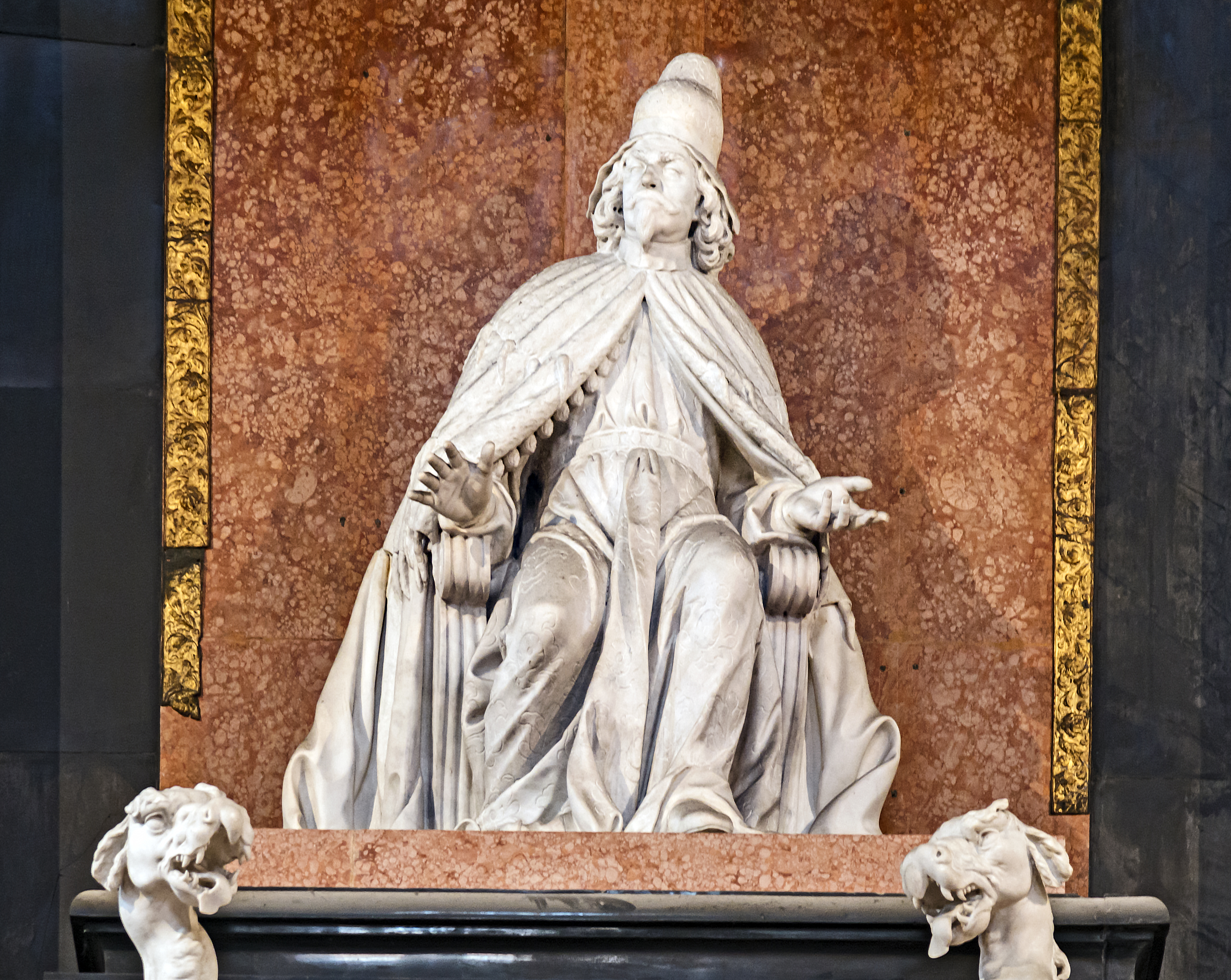 Santa Maria Gloriosa dei Frari, monument of Doge Giovanni Pesaro. Statue of the doge by Josse de Corte.